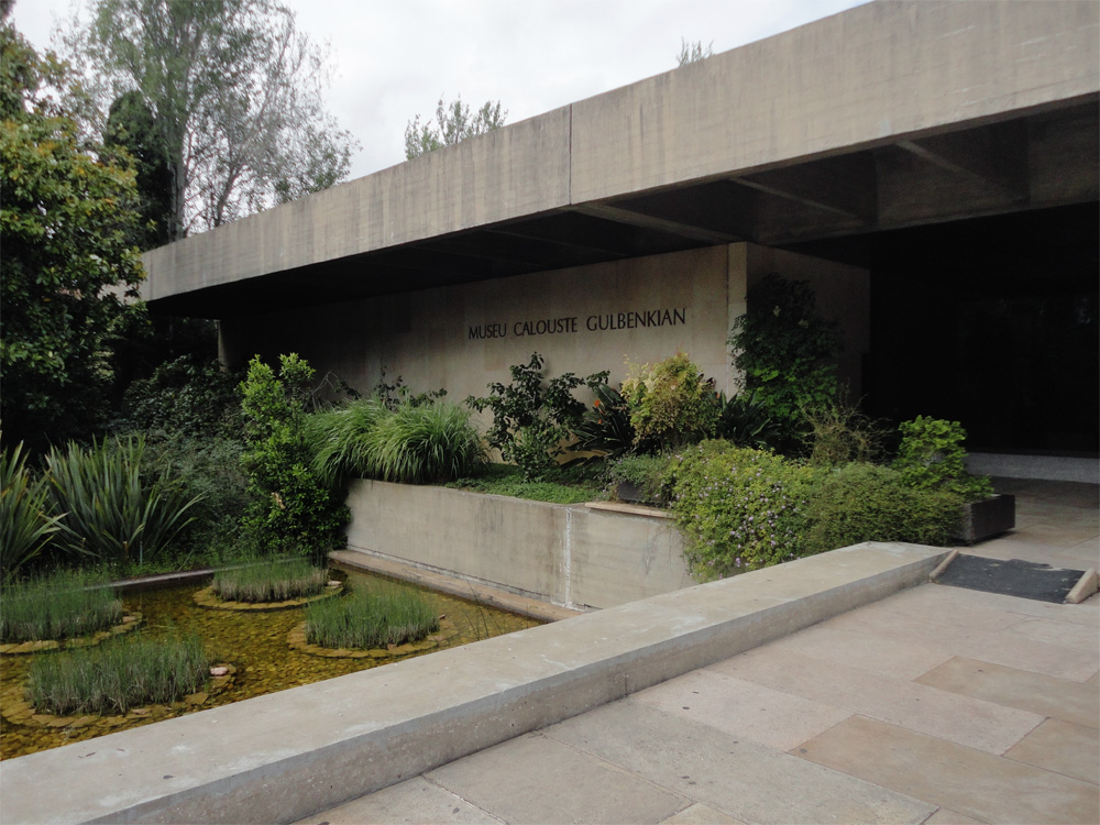 Calouste Gulbenkian Museum, 2013